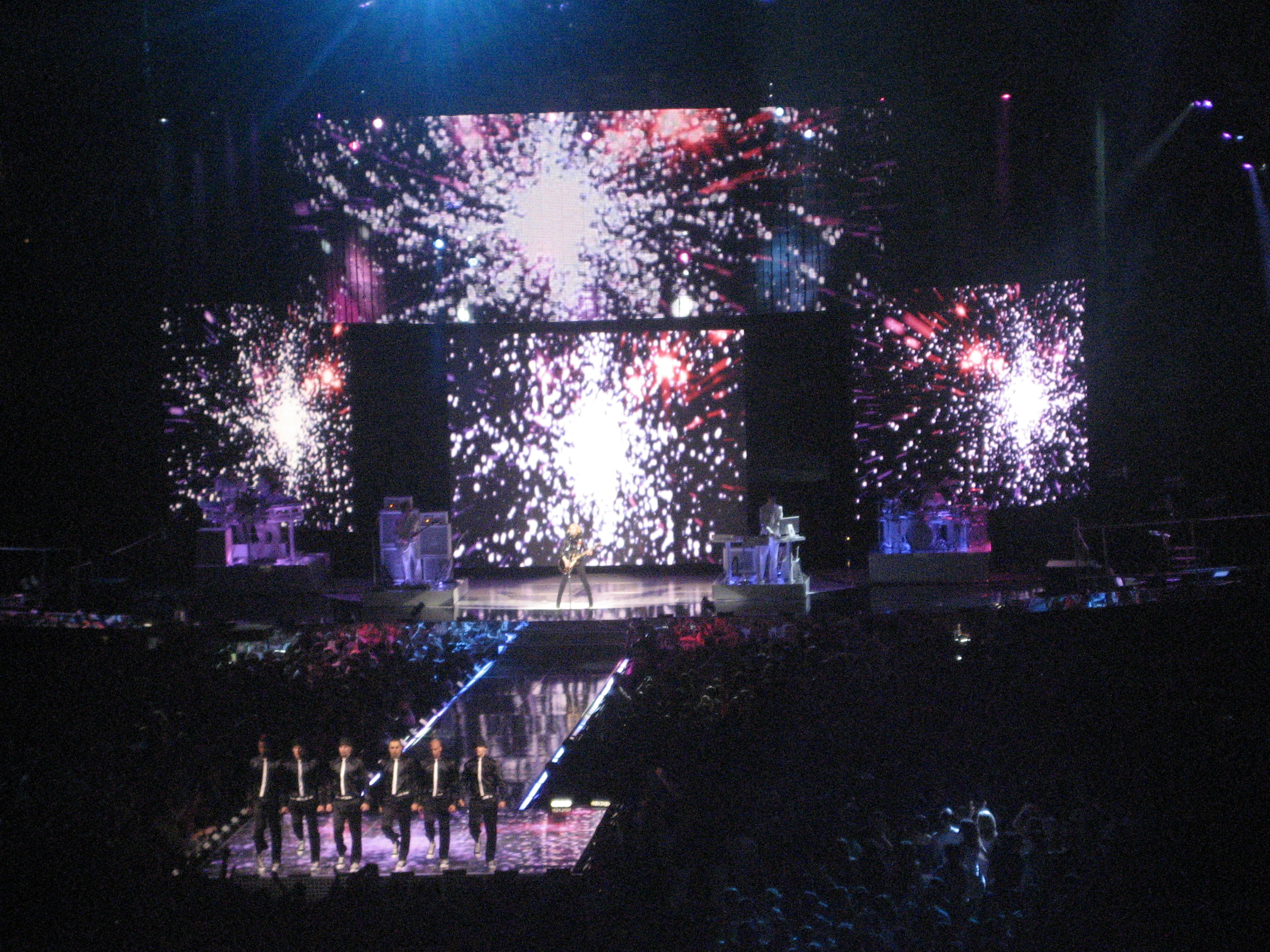 Ray Of Light